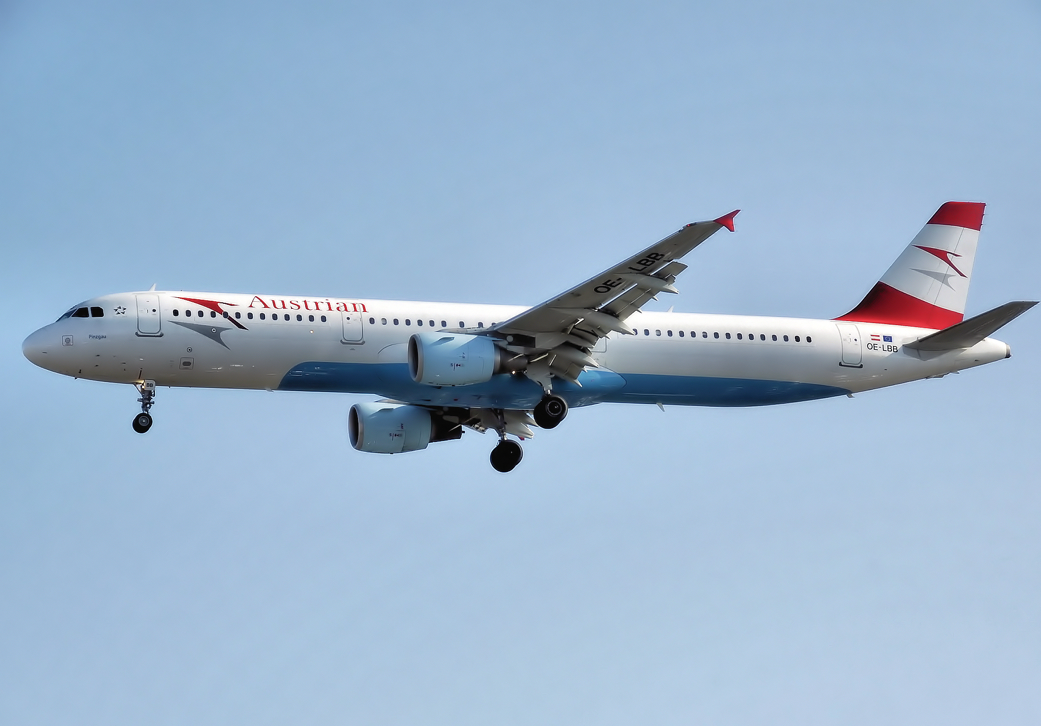 Austrian Airlines Airbus A321-100 (OE-LBB) landing at London Heathrow Airport.